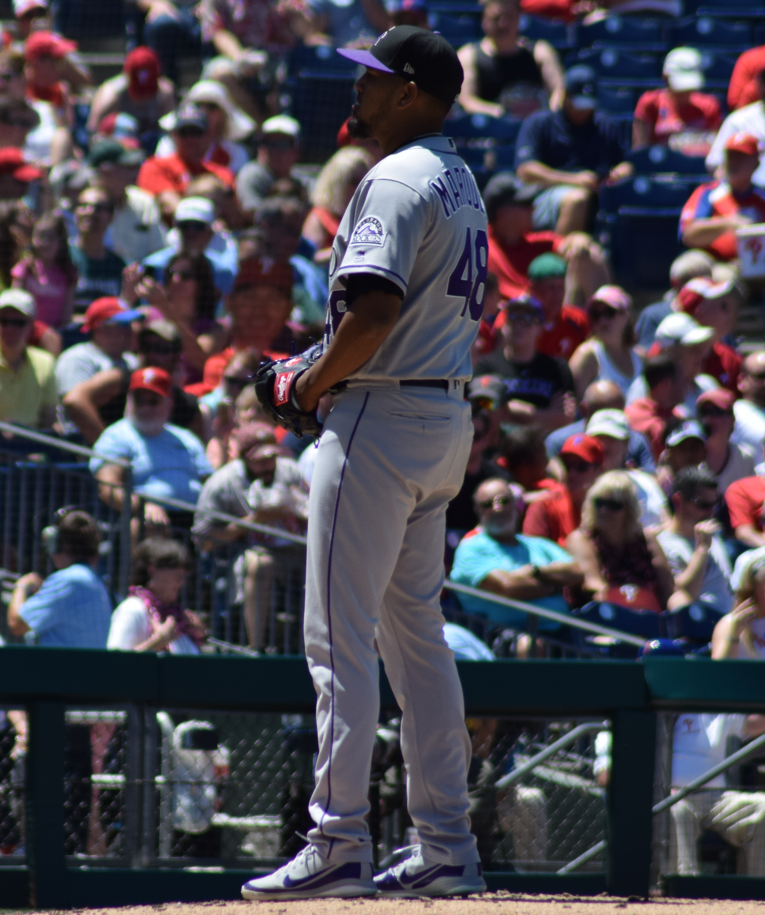 German Marquez on the mound with the Colorado Rockies at Citizens Bank Park in Philadelphia in 2018